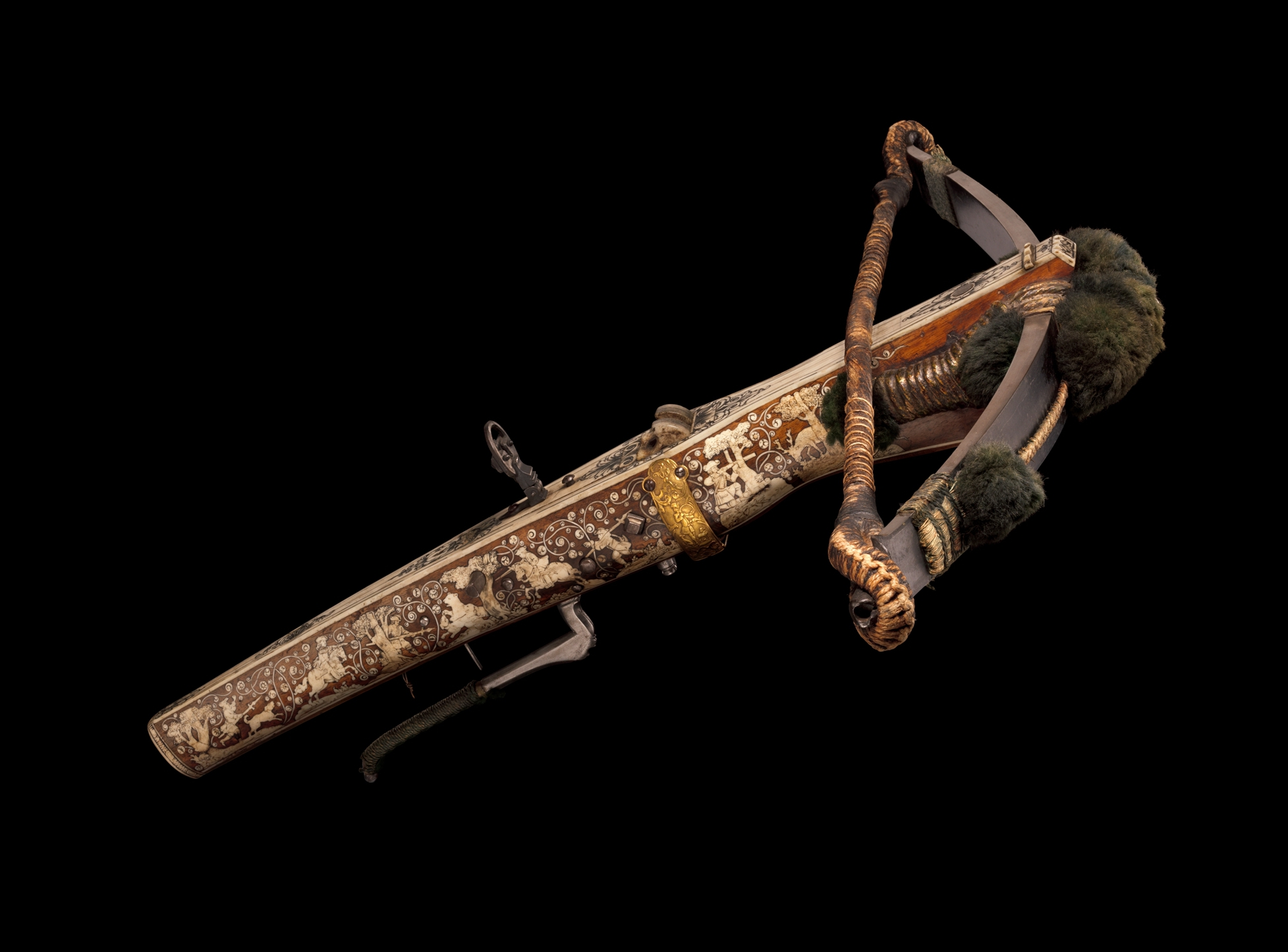 crossbow, German, probably Dresden; winder, possibly German; Crossbow (Halbe rüstung) with winder (Cranequin); Archery Equipment-Crossbows